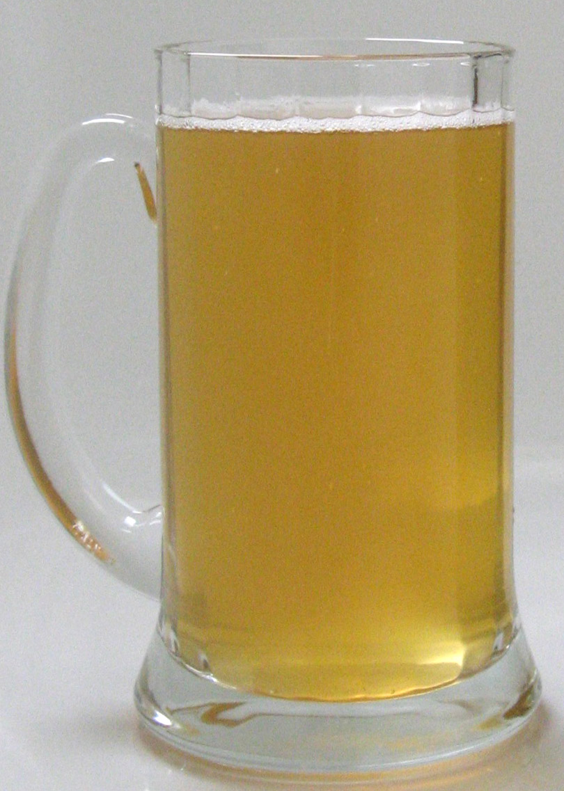 Kellerbier (Kellerbier, Zwickelbier), a special unfiltered kind of beer. Special edition for the 400 years anniversary of a German city of Mannheim. Brewed by the "Eichbaum" brewery from the same city.